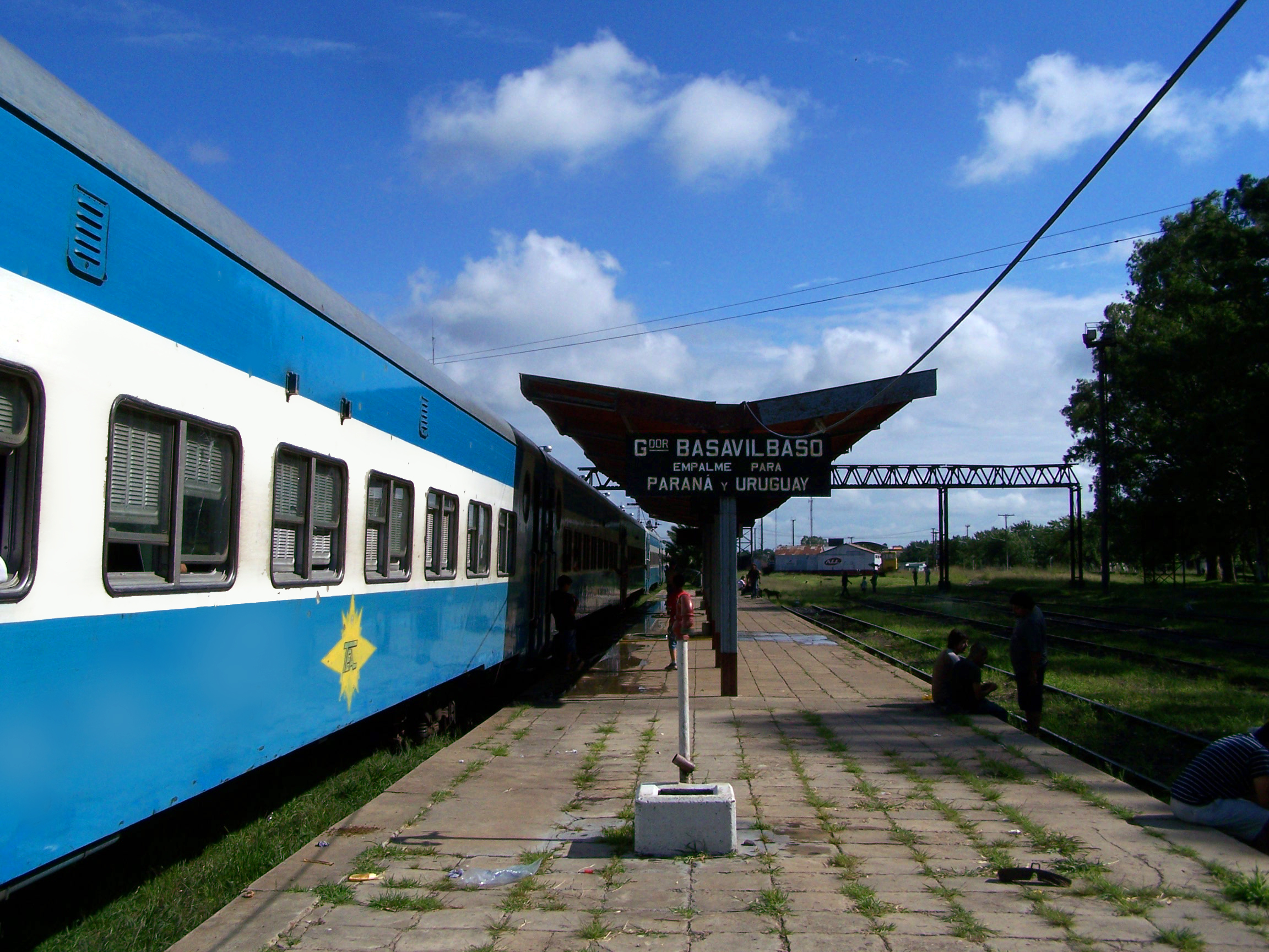 El Gran Capitán passenger train in Basavilbaso railway station in Entre Ríos (Argentina), with exchanges to Paraná (capital of the province of Entre Rios) and the Republic of Uruguay